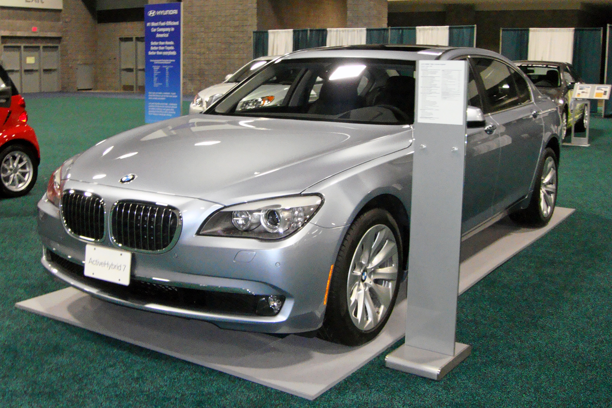 BMW ActiveHybrid 7 at the 2010 Washington Auto Show (D.C.)